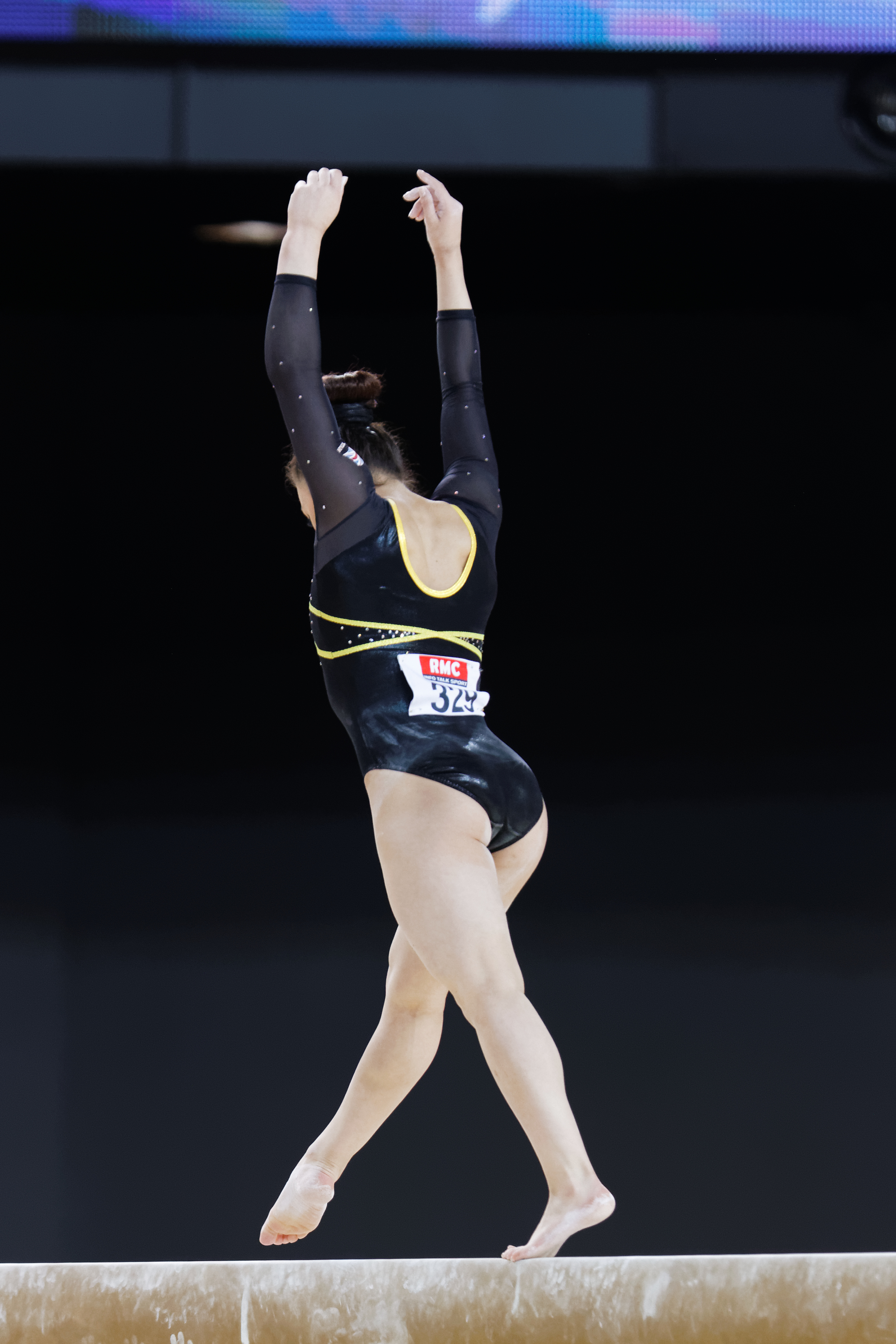 2015 European Artistic Gymnastics Championships. Bamance beam.